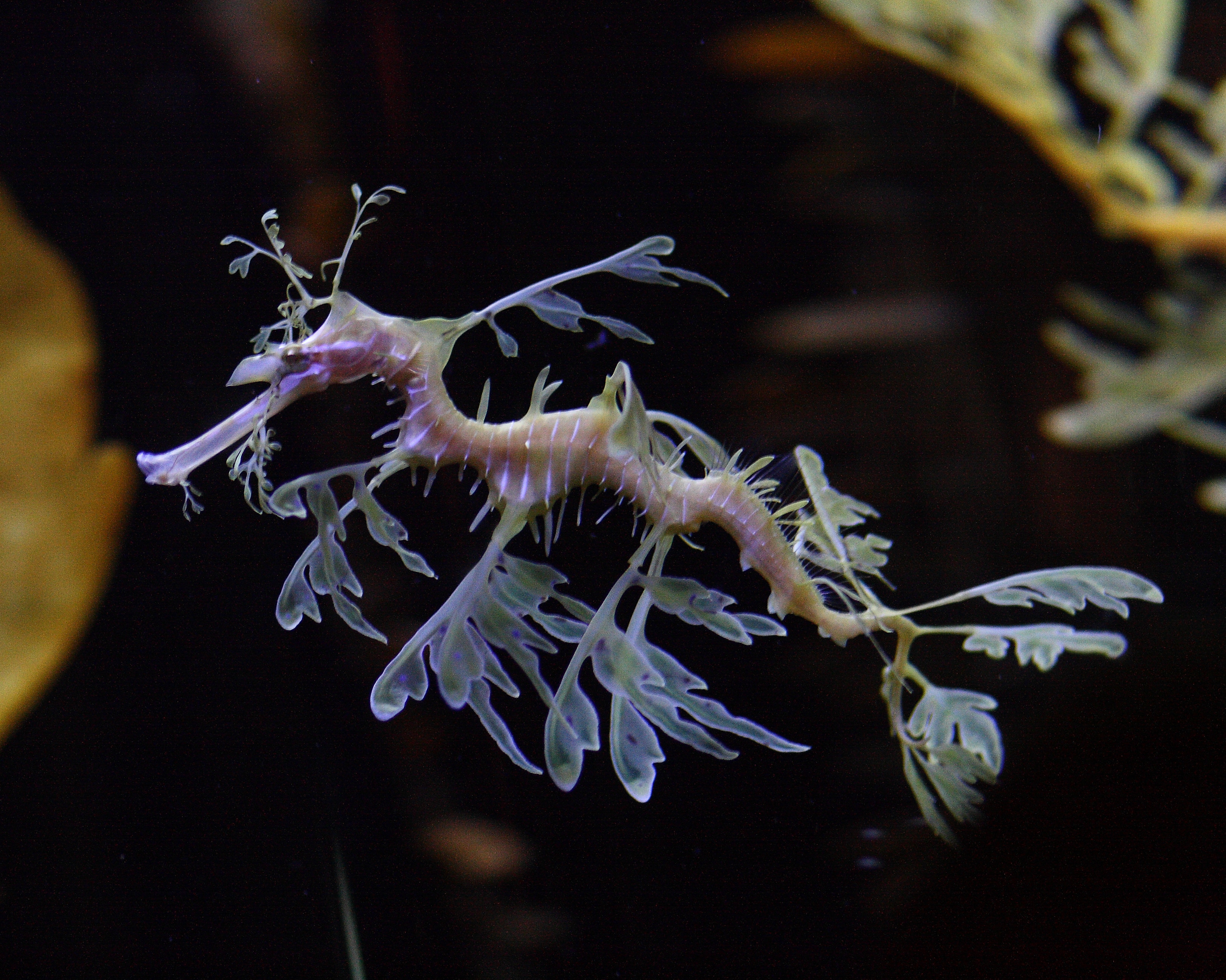 A leafy sea dragon (Phycodurus eques) at Shedd Aquarium in Chicago, Illinois